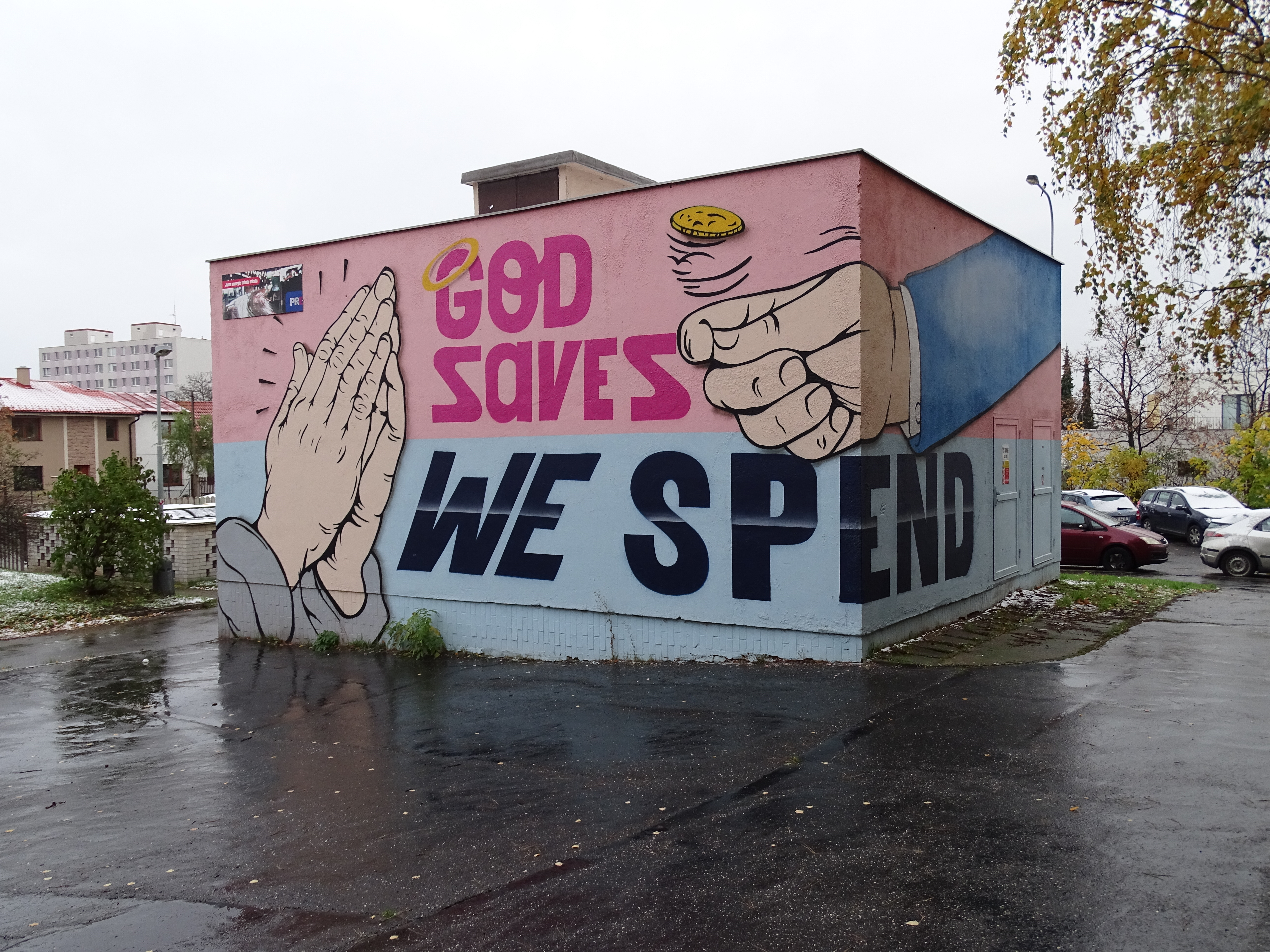 Prague-Chodov, Czechia. Markušova street, distribution station TS 3066.